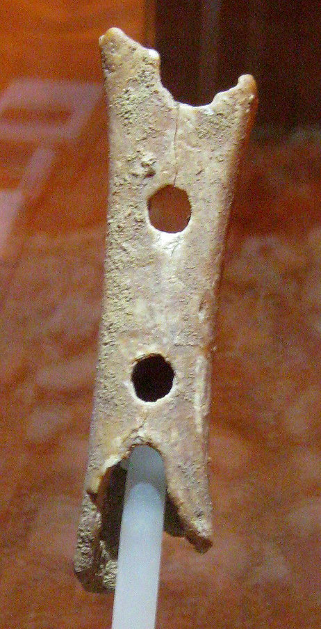 Prehistorical flute from Divje Babe archeological site, Slovenia. Held by Slovenian National museum, Ljubljana.